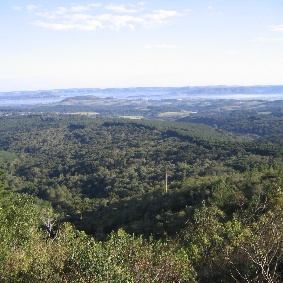 Piraí do Sul National Forest